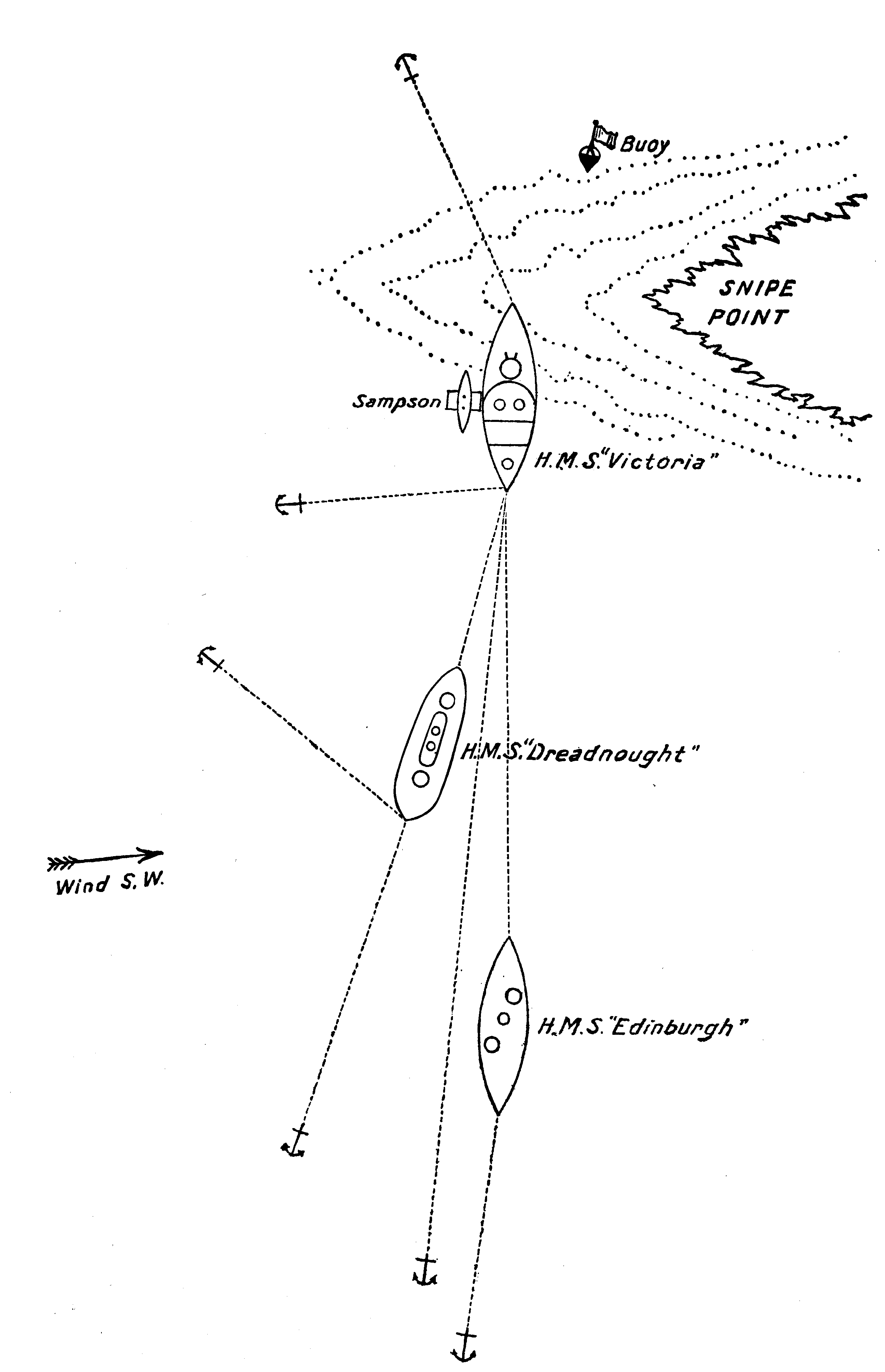 Diagram showing the disposition of ships for re-floating HMS Victoria from Snipe Point, Platea, Greece in february 1892.